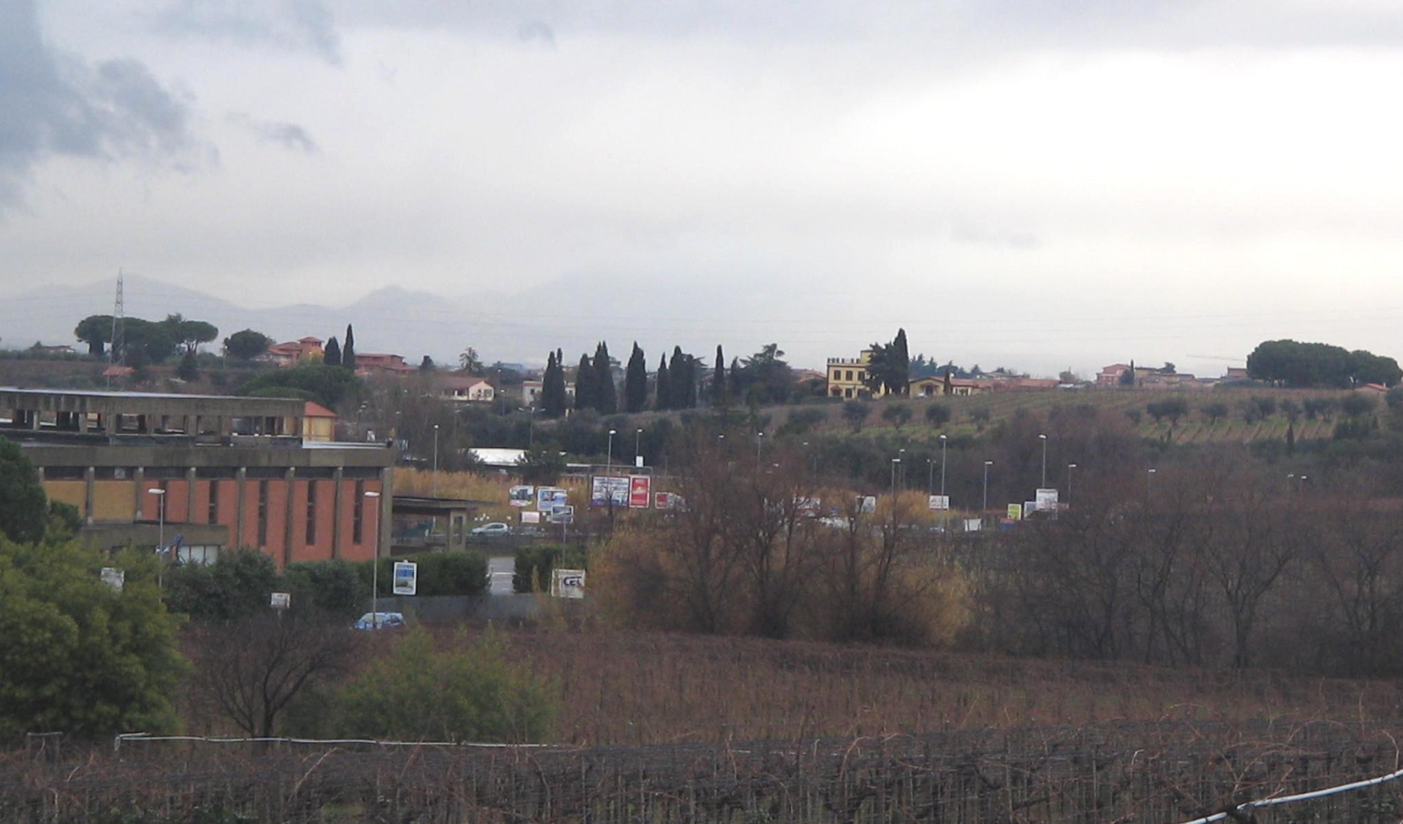 View of the northern rural area of Vermicino (hamlet of Frascati, Italy), near the A1 motorway ("A1 dir Roma Sud") and the road Via di Vermicino between Vermcino center and Selvotta.